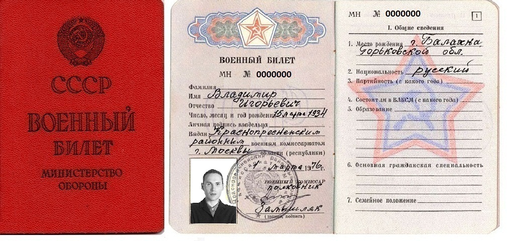 Military ticket conscript military service of the Soviet army USSR. Item № 1 the Place of birth of the, Item № 2 of The Nationality of, Item № 3 Member of the Communist party of the Soviet Union, Item № 4 of the member of the Komsomol, Item № 5 Of The Education, Item № 6 Of The Profession, Item № 7 of the Marital status. The document number and last name removed!